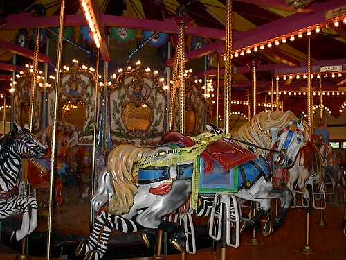 Carousel at Beardsely Zoo, Bridgeport, CT. I took this.